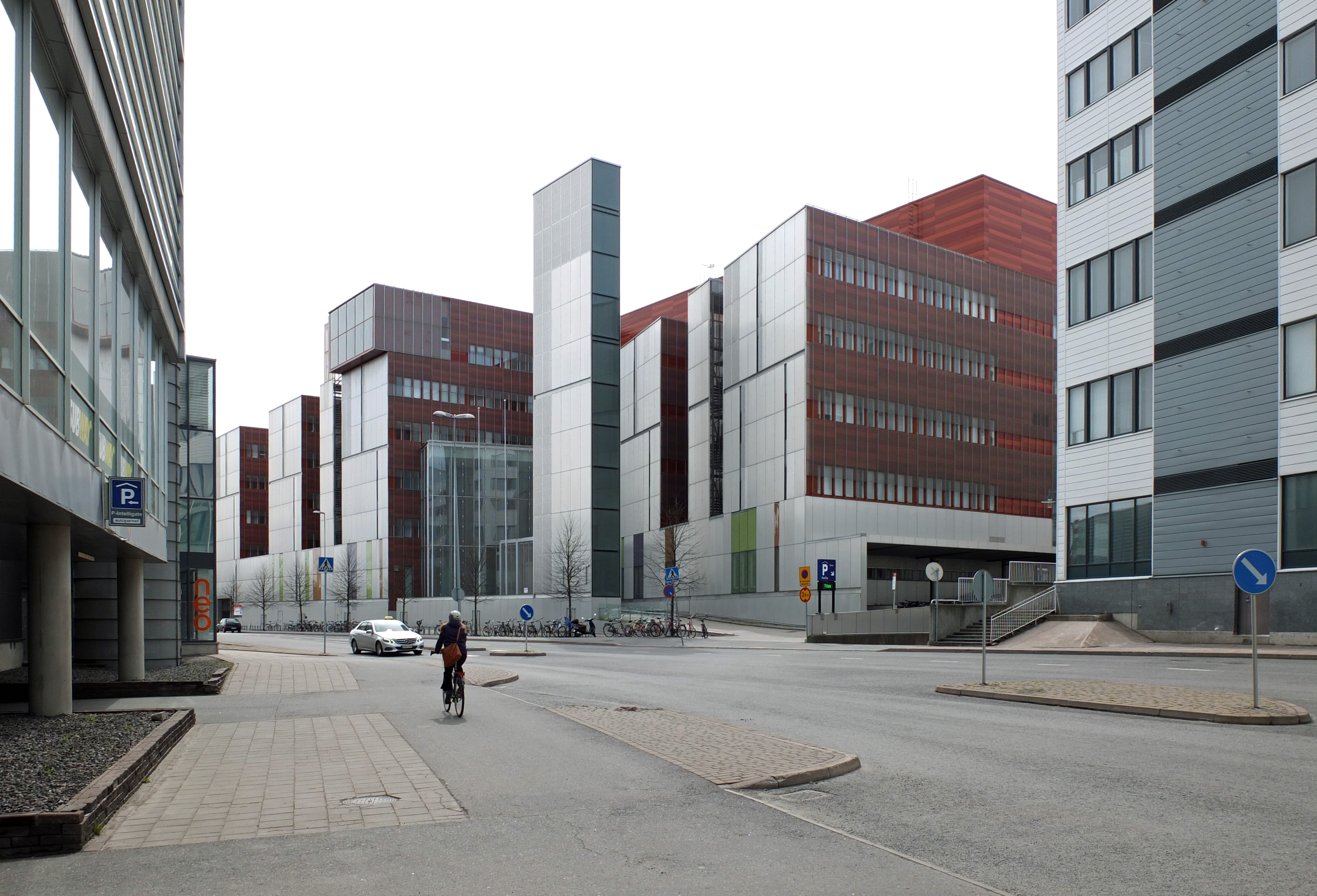 ICT building, used for ICT studies jointly by the University of Turku, Turku University of Applied Sciences, Åbo Akademi, and Kupittaan lukio high school. Architect Ilmari Lahdelma 2006.